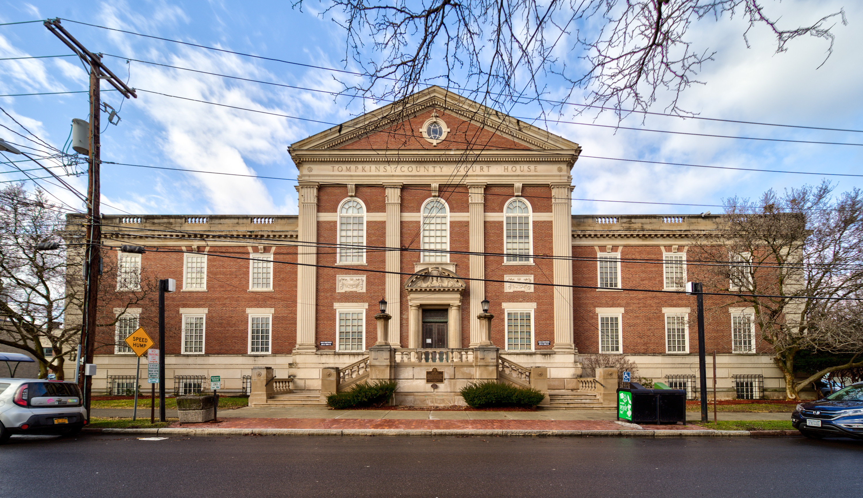 Tompkins County Family Court, 320 N Tioga Street, Ithaca, New York. Built 1932, designed by J. Lakin Baldridge in Neo-Georgian style. This was the third courthouse in Tompkins County.